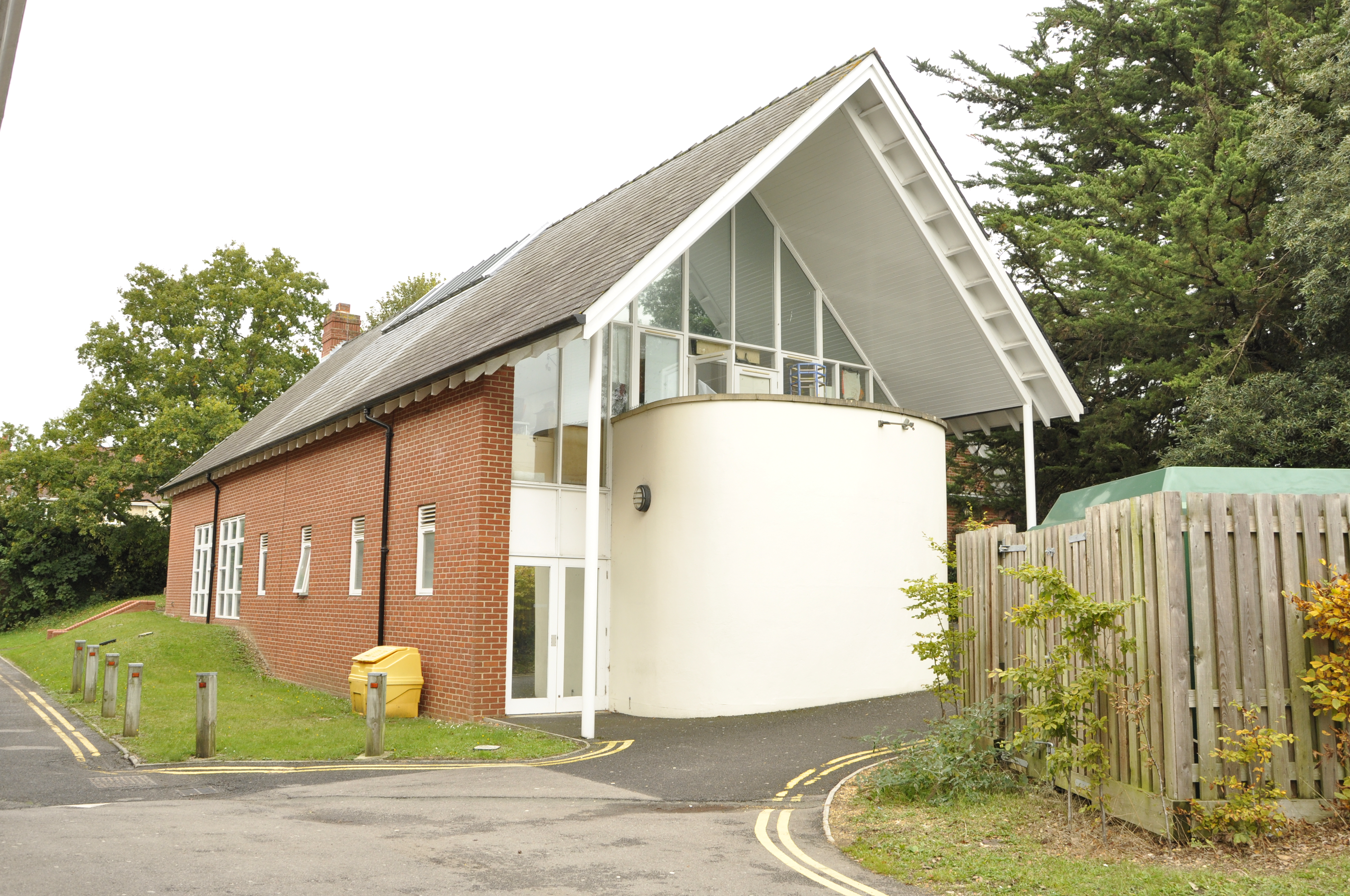 The new £1.5 million Creative Arts block at Itchen College.